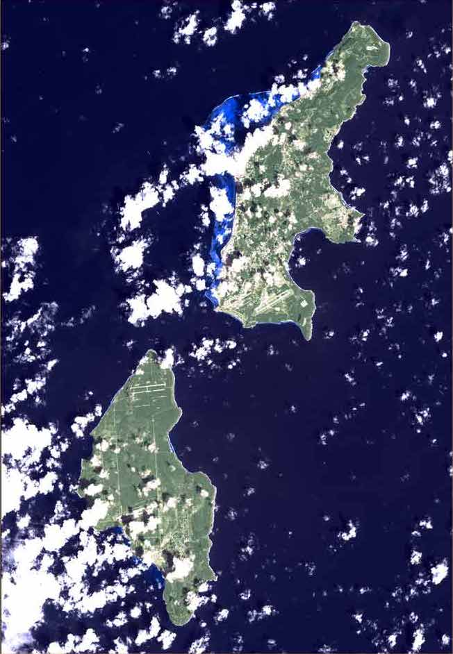 The raw satellite imagery shown in these images was obtain from NASA and/or the US Geological Survey. Post-processing and production by Saipan-Tinian, Northern Mariana Islands from Space.